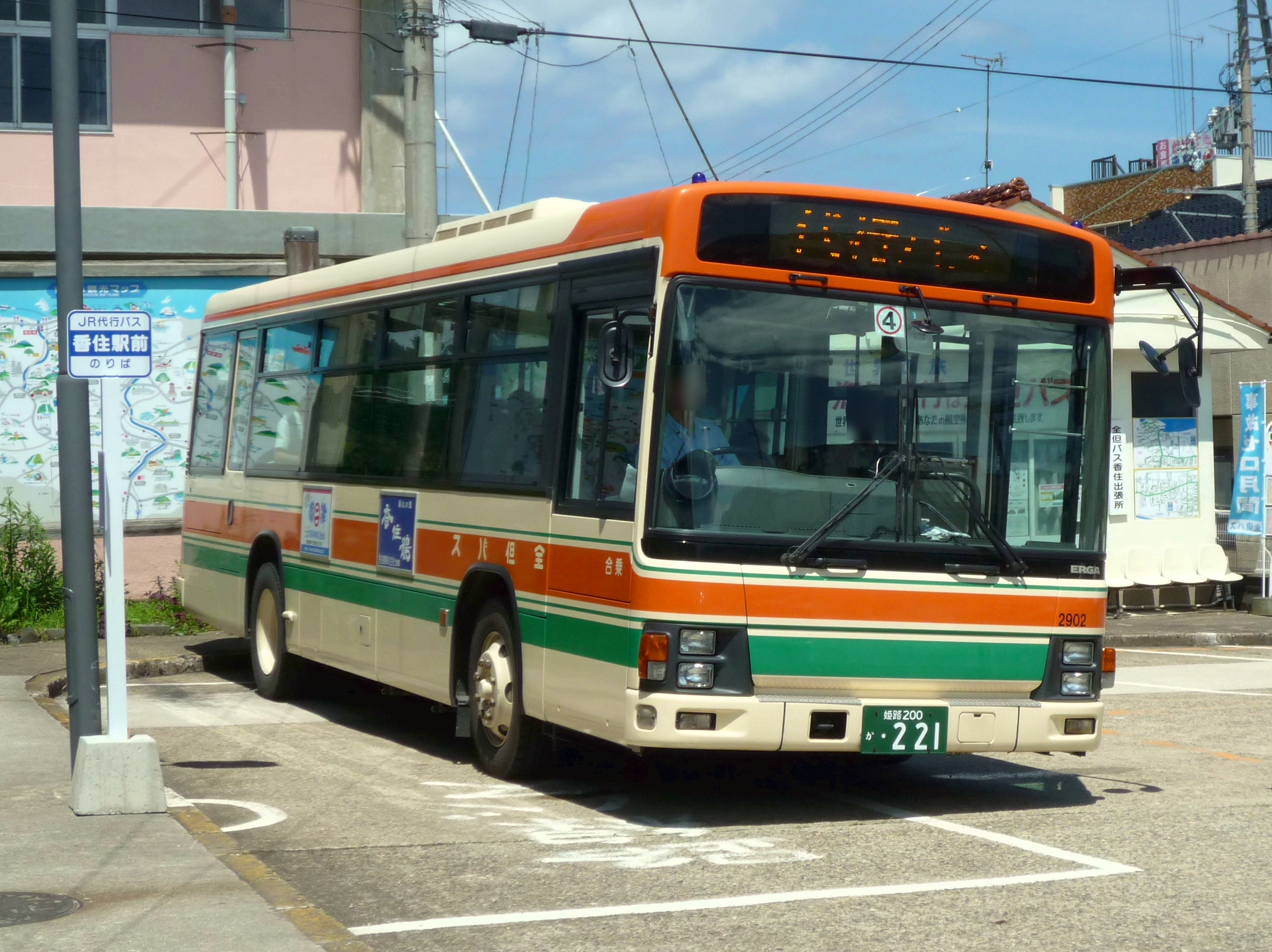 Bustitution at Kasumi Station of San'in Main Line, due to the construction of New Amarube Viaduct.